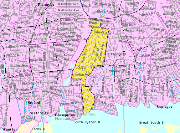 U.S. Census 2000 reference map for Massapequa Park